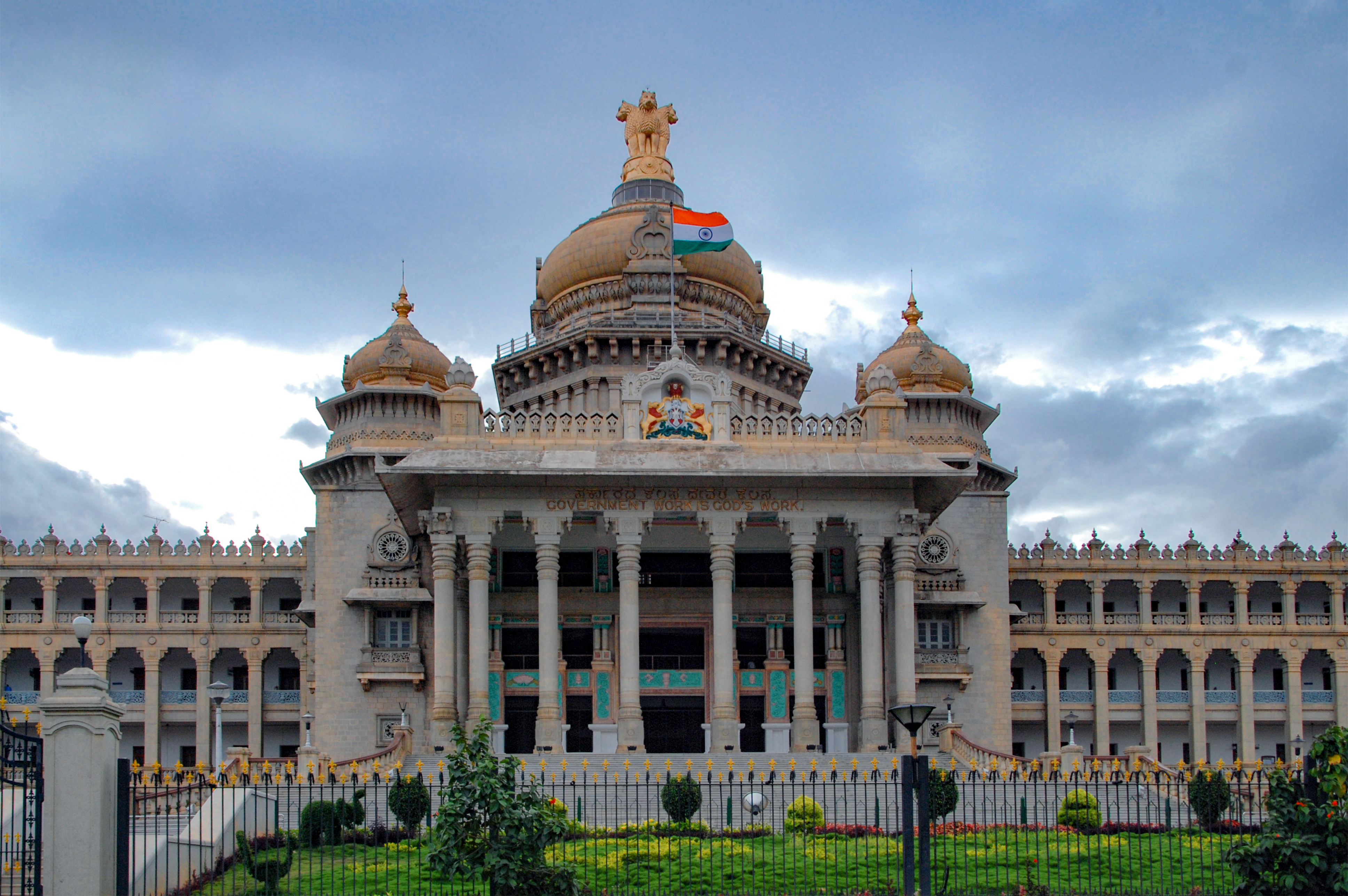 Vidhana Soudha (facade), Ambedkar Veedhi, Sampangi Rama Nagara, Bengaluru, Karnataka, India.